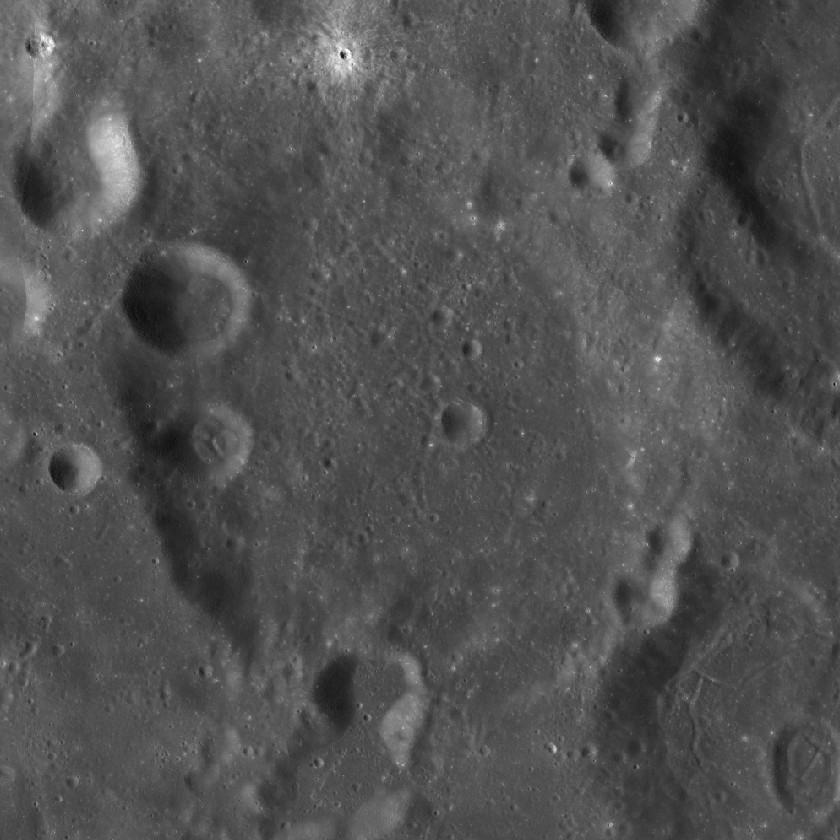 Bohr crater, on the moon. LRO Wide Angle Camera mosaic.